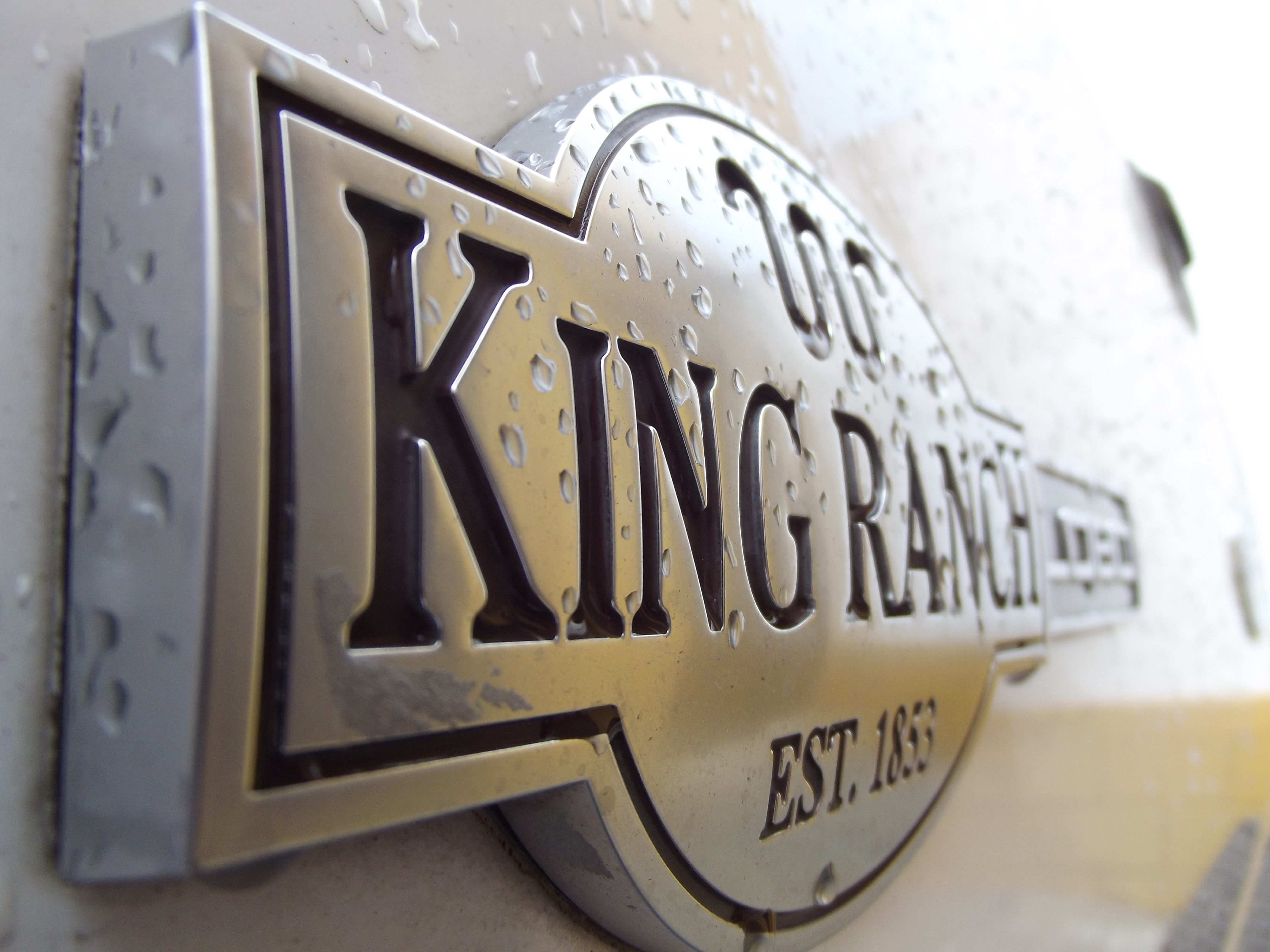 King Ranch Logo on Ford Lobo